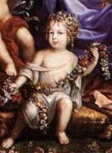 Marie Thérèse of France (1667–1672), Petit Madame. (detail of "Louis XIV and His Family")